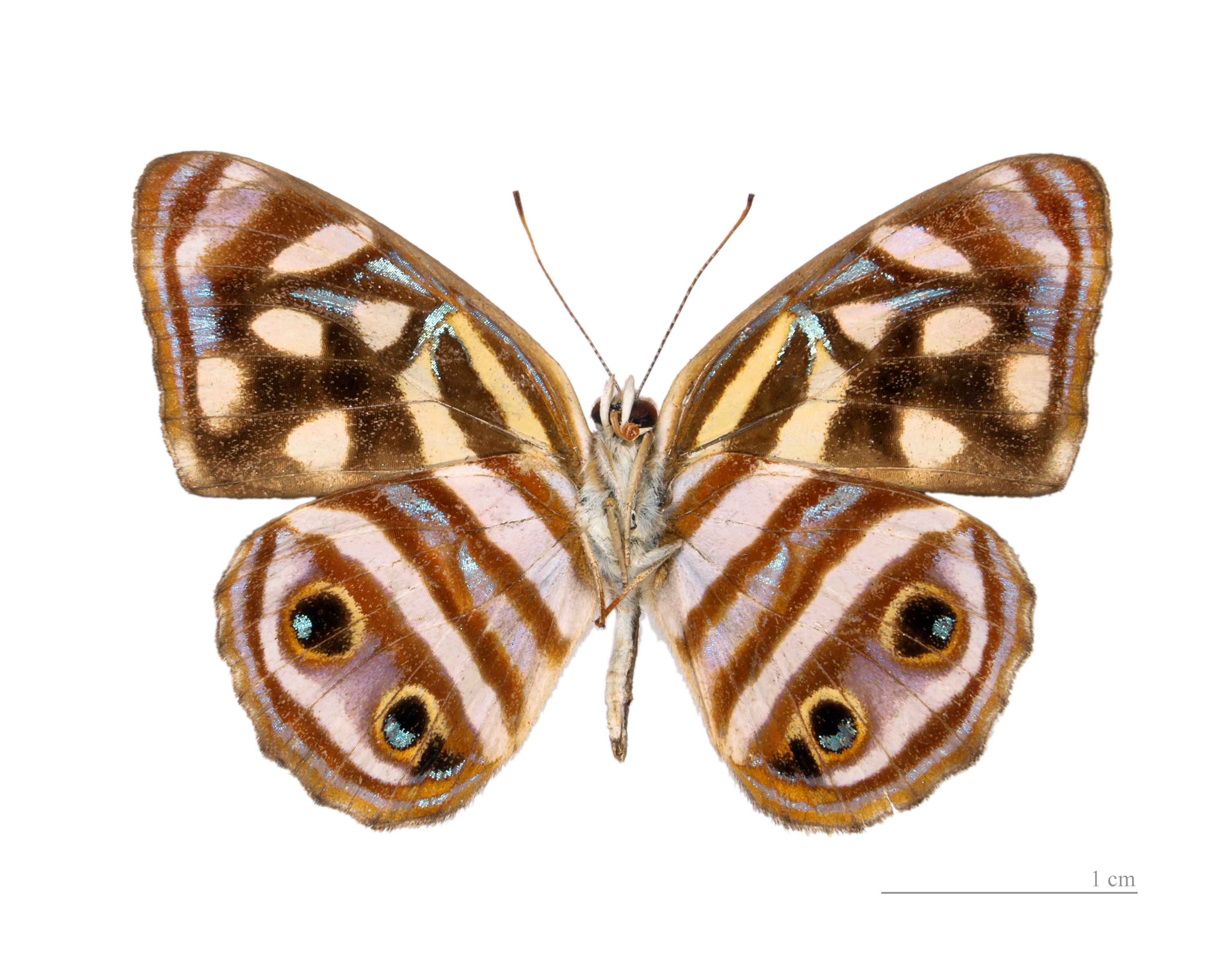 ♂ - - △ Ventral side Locality : Cayenne, Trail Rorota, French Guiana.